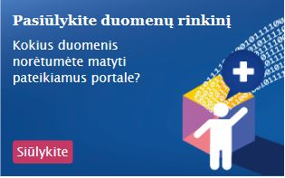 Screenshot from EUODP